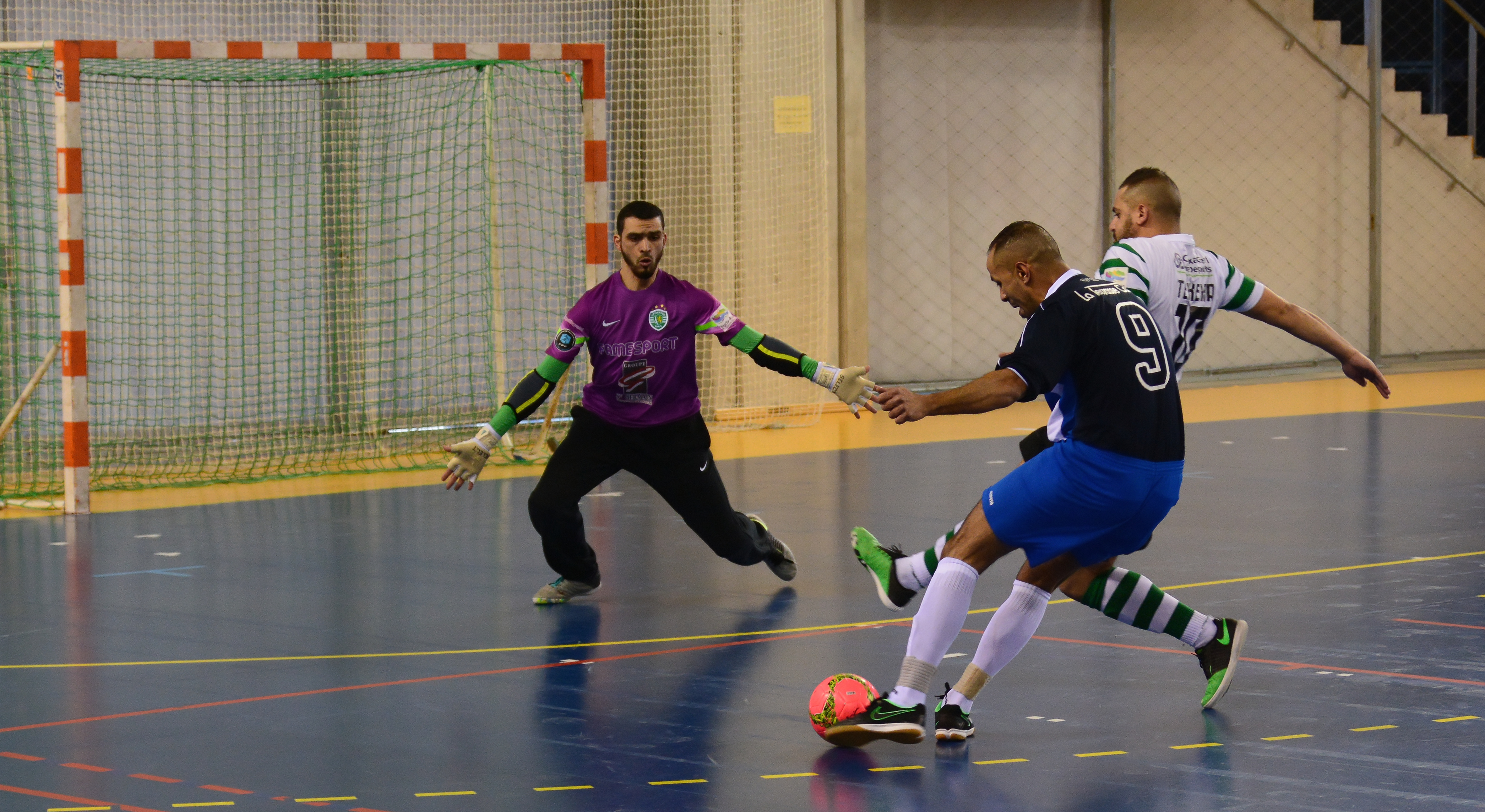 This image was taken with a Tamron SP AF 24-70mm F / 2.8 Di VC USD objective for Nikon digital single-lens reflex camera donated for photos by Wikimédia France. English | français | +/− Personality rights warningAlthough this work is freely licensed or in the public domain, the person(s) shown may have rights that legally restrict certain re-uses unless those depicted consent to such uses. In these cases, a model release or other evidence of consent could protect you from infringement claims.